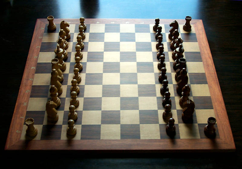 Grand Chess is a chess variant invented by Christian Freeling. The set pictured was ordered from Christian Freeling's MindSports web site back in 2002.